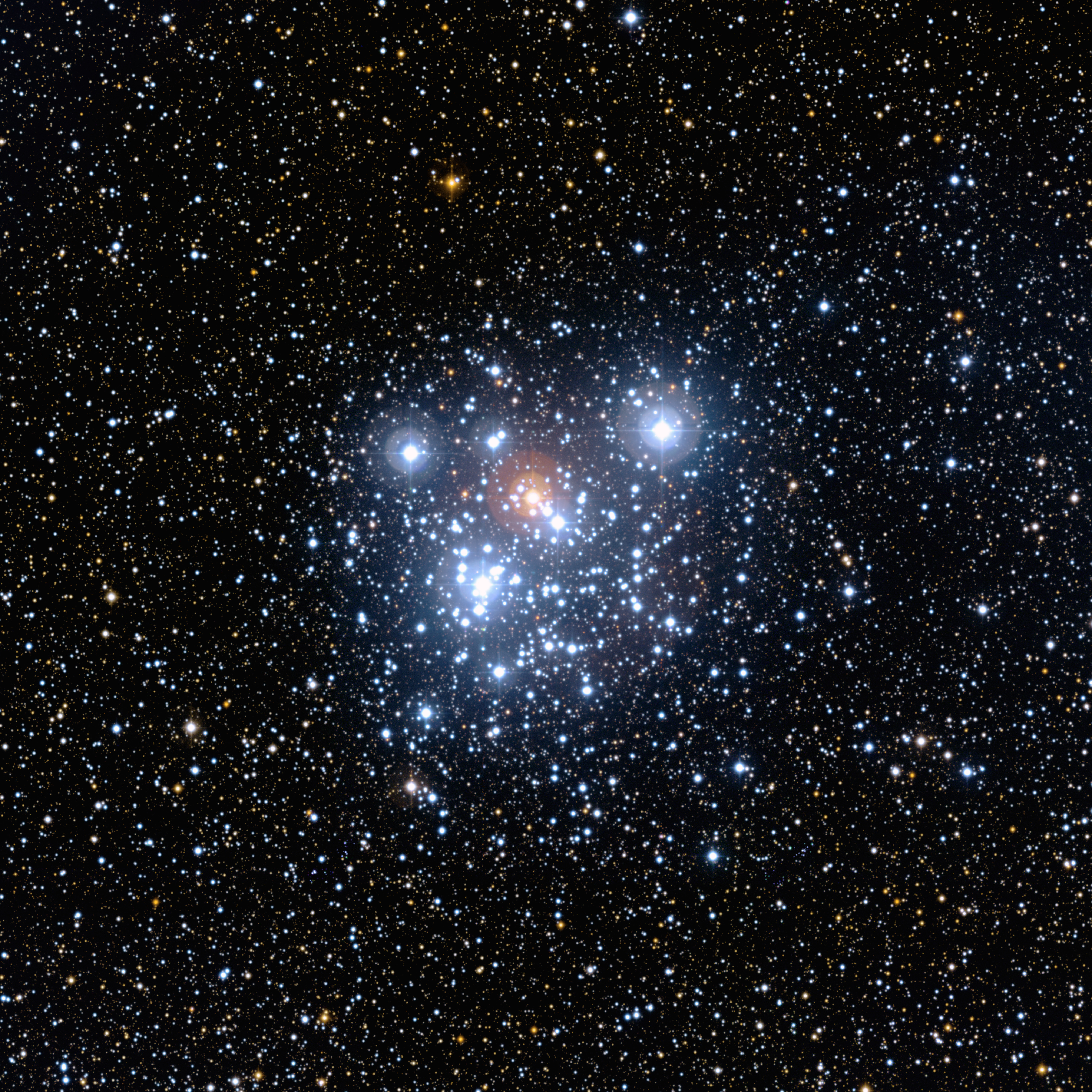 This image of the well-known NGC 4755 cluster or Jewel Box was taken with the Wide Field Imager (WFI) on the MPG/ESO 2.2-metre telescope at ESO’s La Silla Observatory. It highlights the cluster and its rich surroundings in all their multicoloured glory.